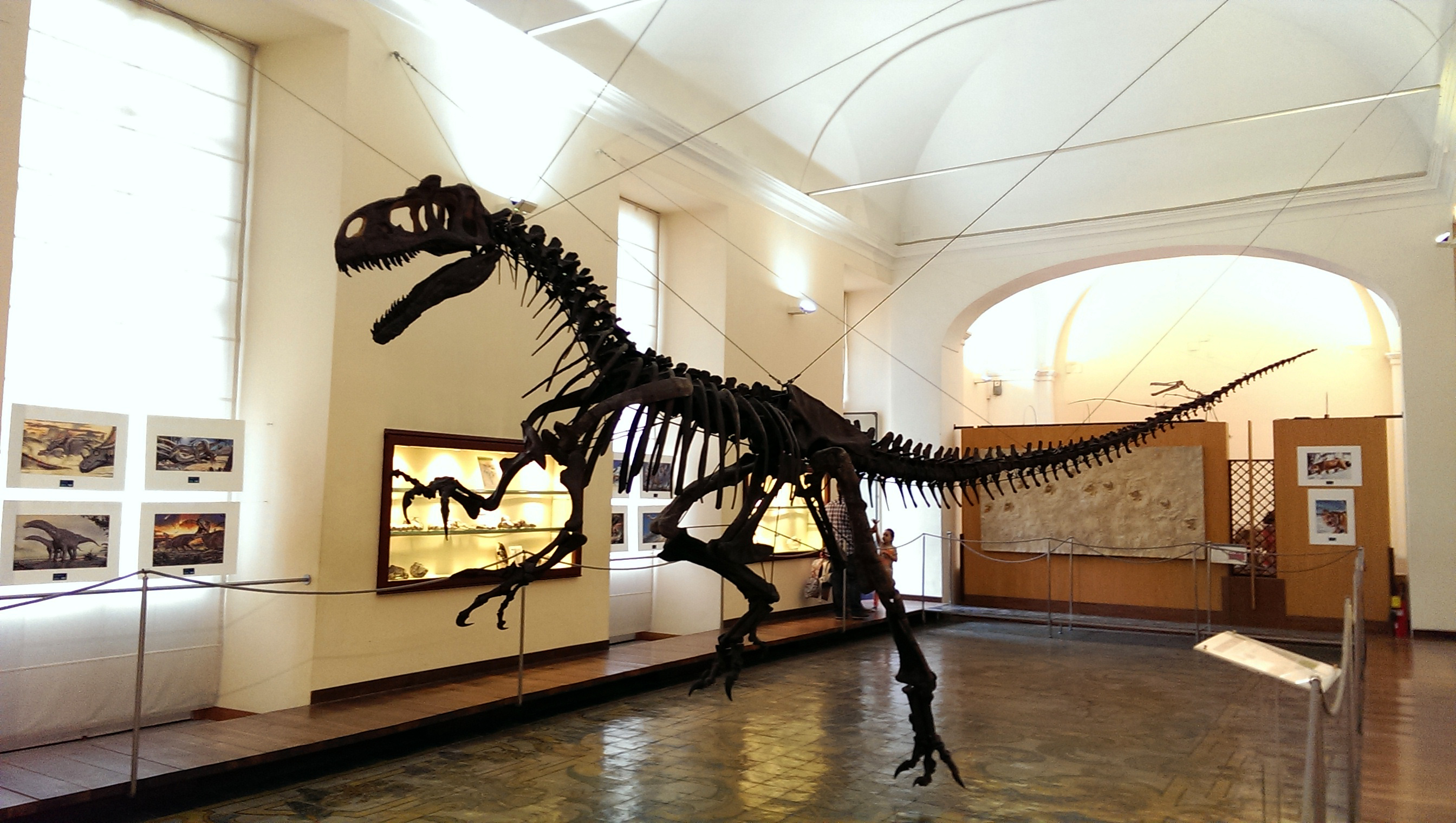 Allosaurus, Museo di Paleontologia, Naples.